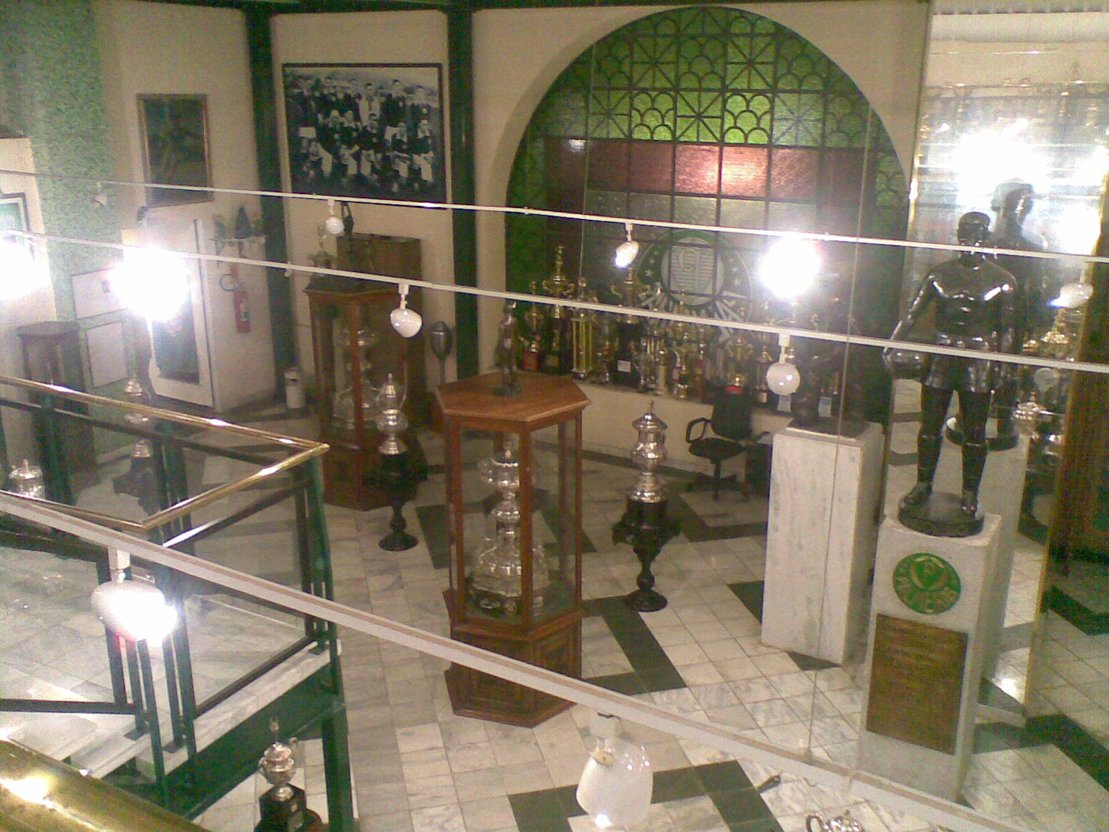 Palmeiras's Hall of Trophies